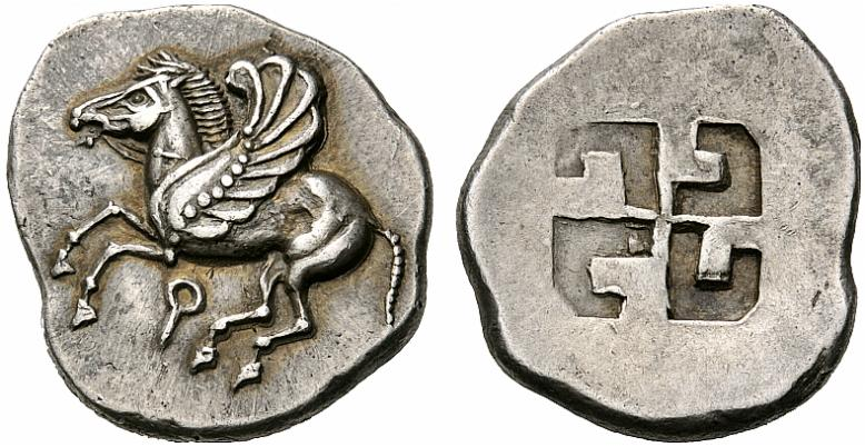 Corinthia, Corinth. Circa 550-500 BC. Stater (Silver, 8.61 g). Pegasos, with curved wing, flying to left; below, koppa. Rev. Incuse in the form of a swastika to left. BCD Corinth 3 (this coin). Ravel - (P-/T 54). Very rare and remarkably attractive, perfectly centered and one of the best examples of this type known. Good extremely fine. From the collections of APCW and BCD, Lanz 105, 26 November 2001, 3. This is one of the finest of all archaic Corinthian staters known. Instead of walking, as on the earliest examples of this type, Pegasos is clearly flying here since all his hooves are diagonal and not flat on the ground. The swastika patterned incuse on the reverse is actually a very ancient solar symbol, found in many parts of the world, and has no political meaning. NOMOS3, 93